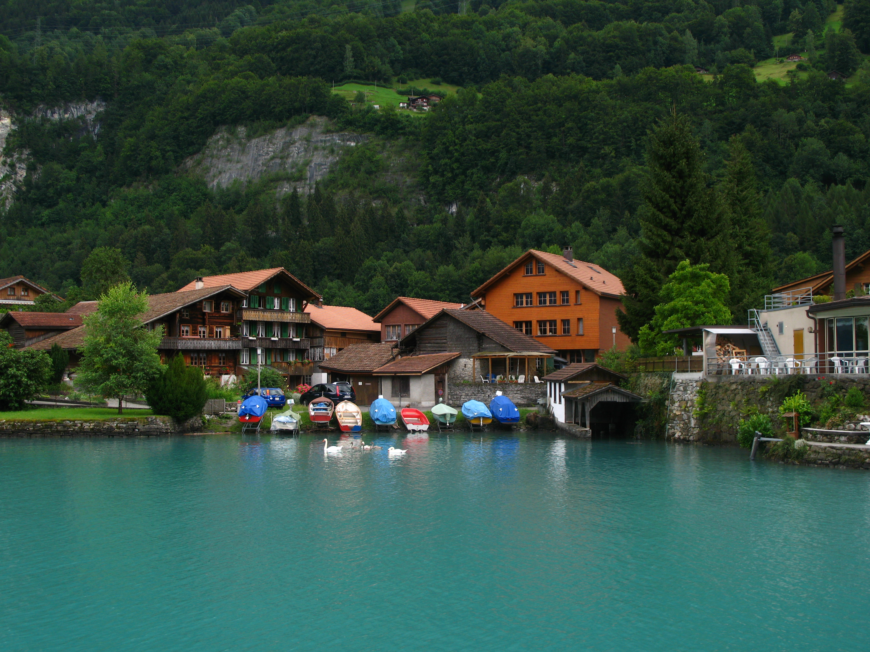 Lake Brienz, Iseltwald, Switzerland